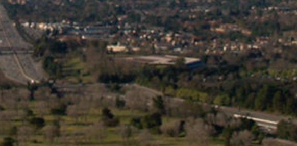 roof of Office building The Oaks, Westlake Village, in front is the Ventura highway (U.S. Route 101); view from south-east *Camera location was 34° 8'21.71"N 118°47'56.77"W.